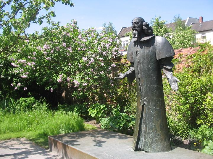 Comenius-Monument in the Comenius-Garten (garden) in Berlin-Neukölln, Germany, created by the sculptor Josef Vajce. It was unveiled in 1992 by Alexander Dubček.